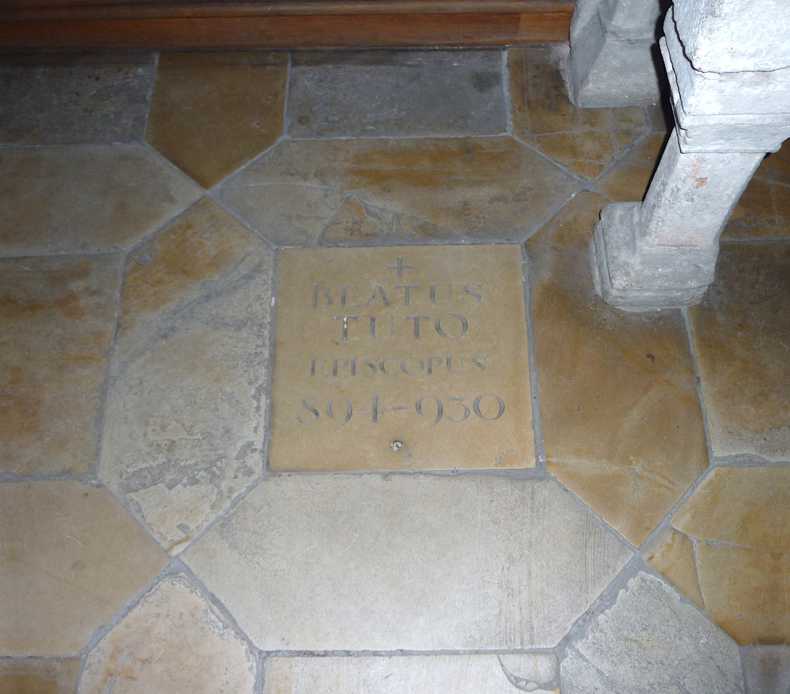 Gravestone of the Bishop Tuto in the Basilica of Saint Emmeram in Regensburg (Bavaria, Germany).